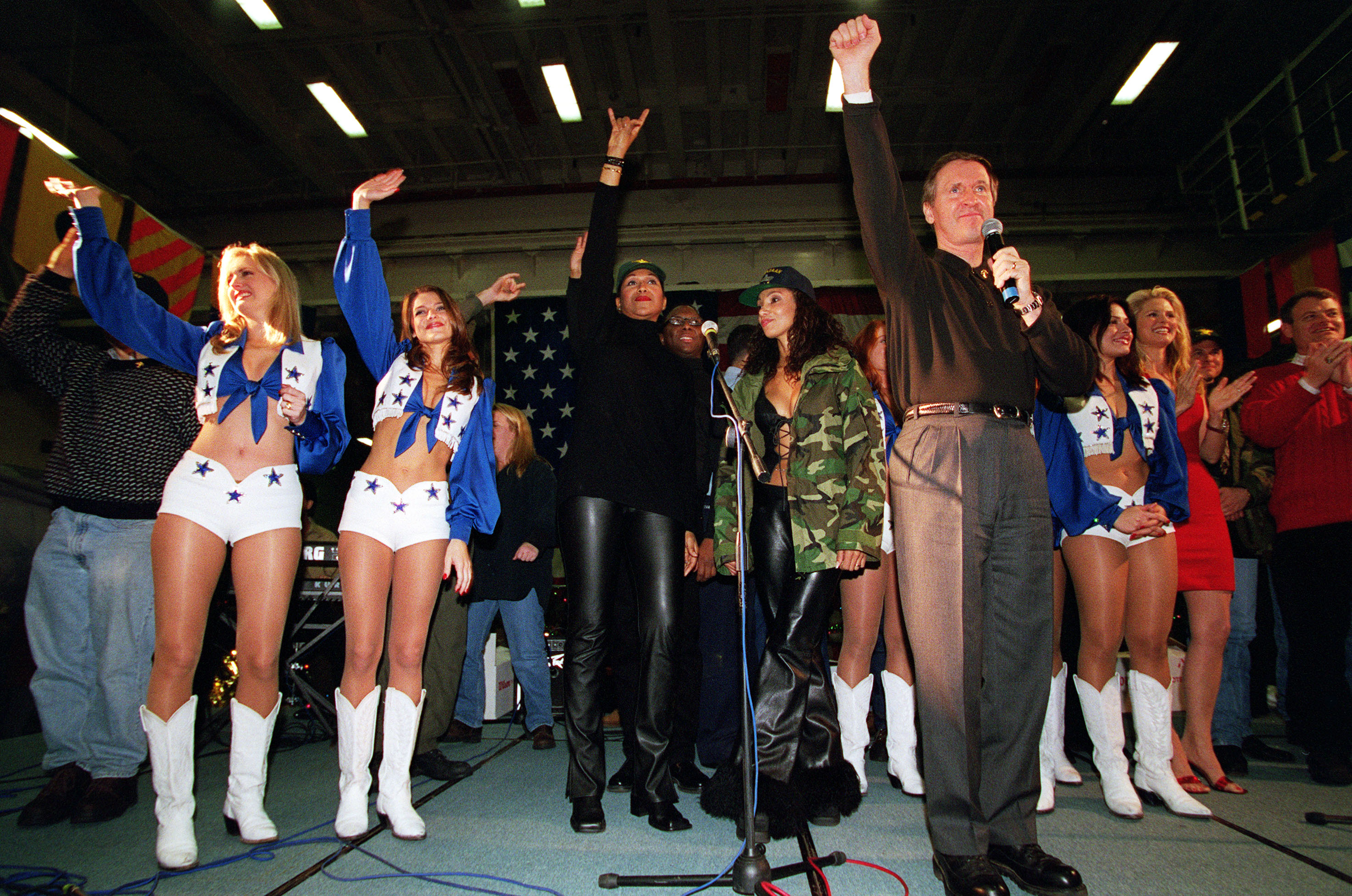 Cheerleaders des Dallas CowBoys